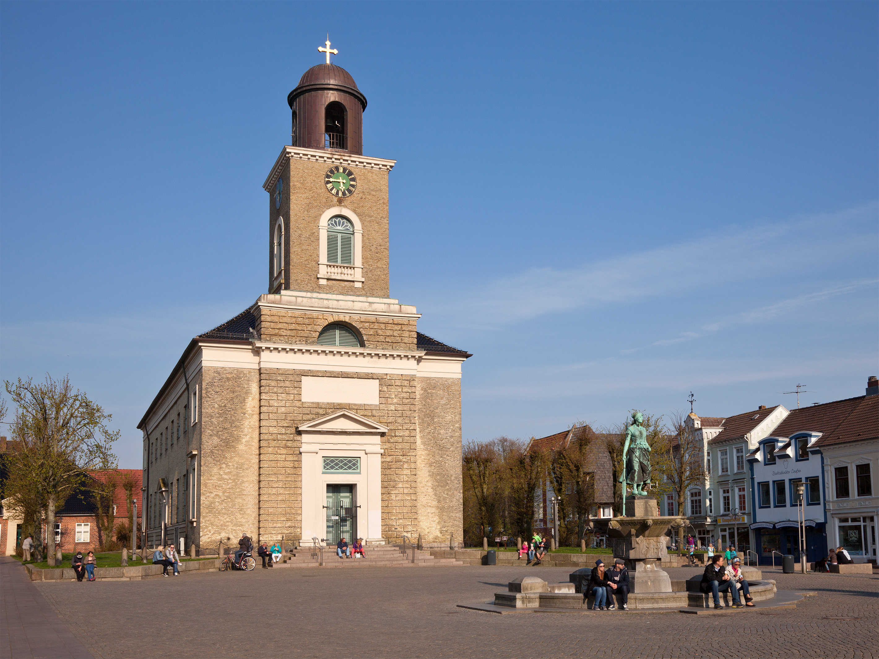 Husum, Marienkirche (Church St. Mary) and the Tine-Brunnen (with monument to "Tine", a farmer in this region)